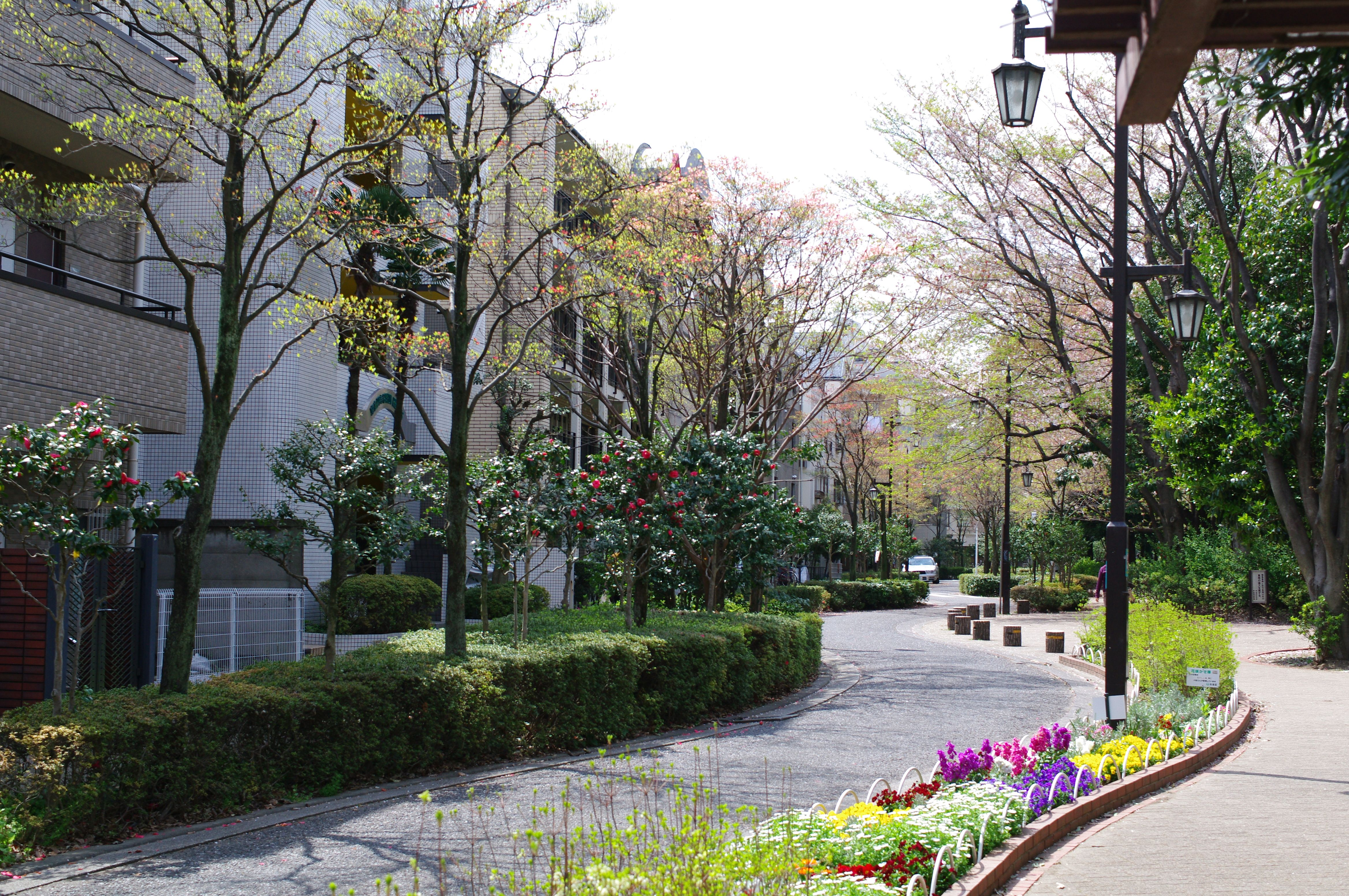 蚕糸の森公園入口緑道 A Green Path at the Entrance of Sanshi no Mori Park